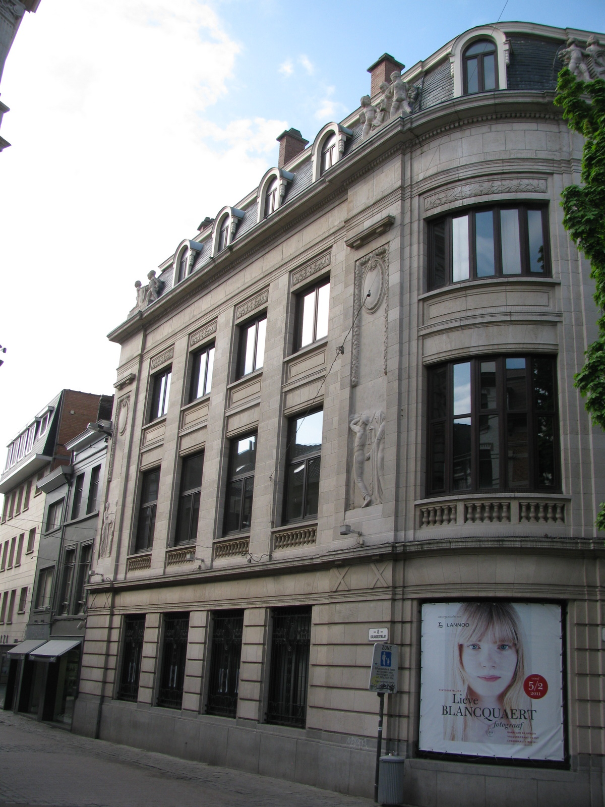 Ghent, on 2011-04-17